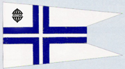 a boat club commodore banner